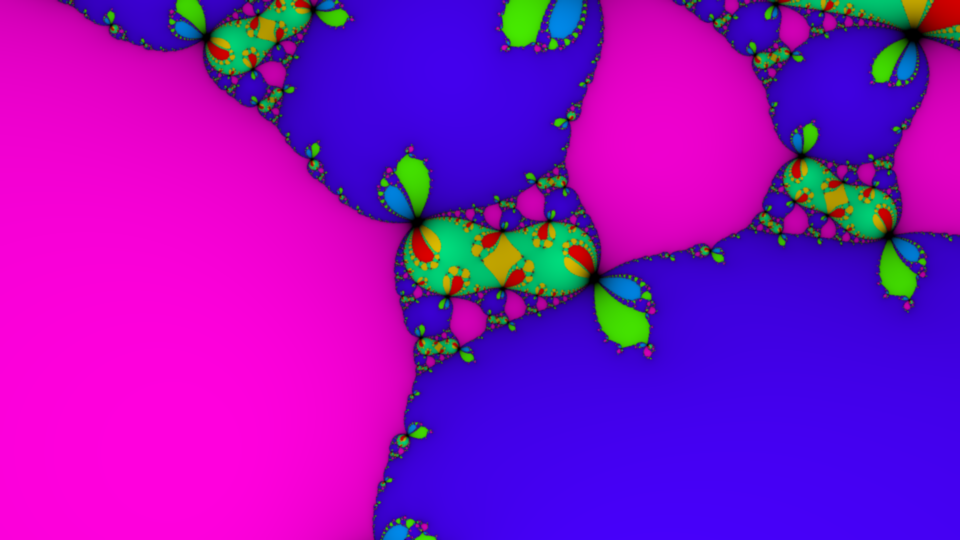 This is the newton fractal of a 7th order complex polynomial, rendered from z = -16/9 + i to z = 16/9 - i. The basins of attraction can be clearly seen as well as the complex pattern they form with one another. The fractal is colored according to root reached and shaded by convergence rate. The completely black points do not converge at all.